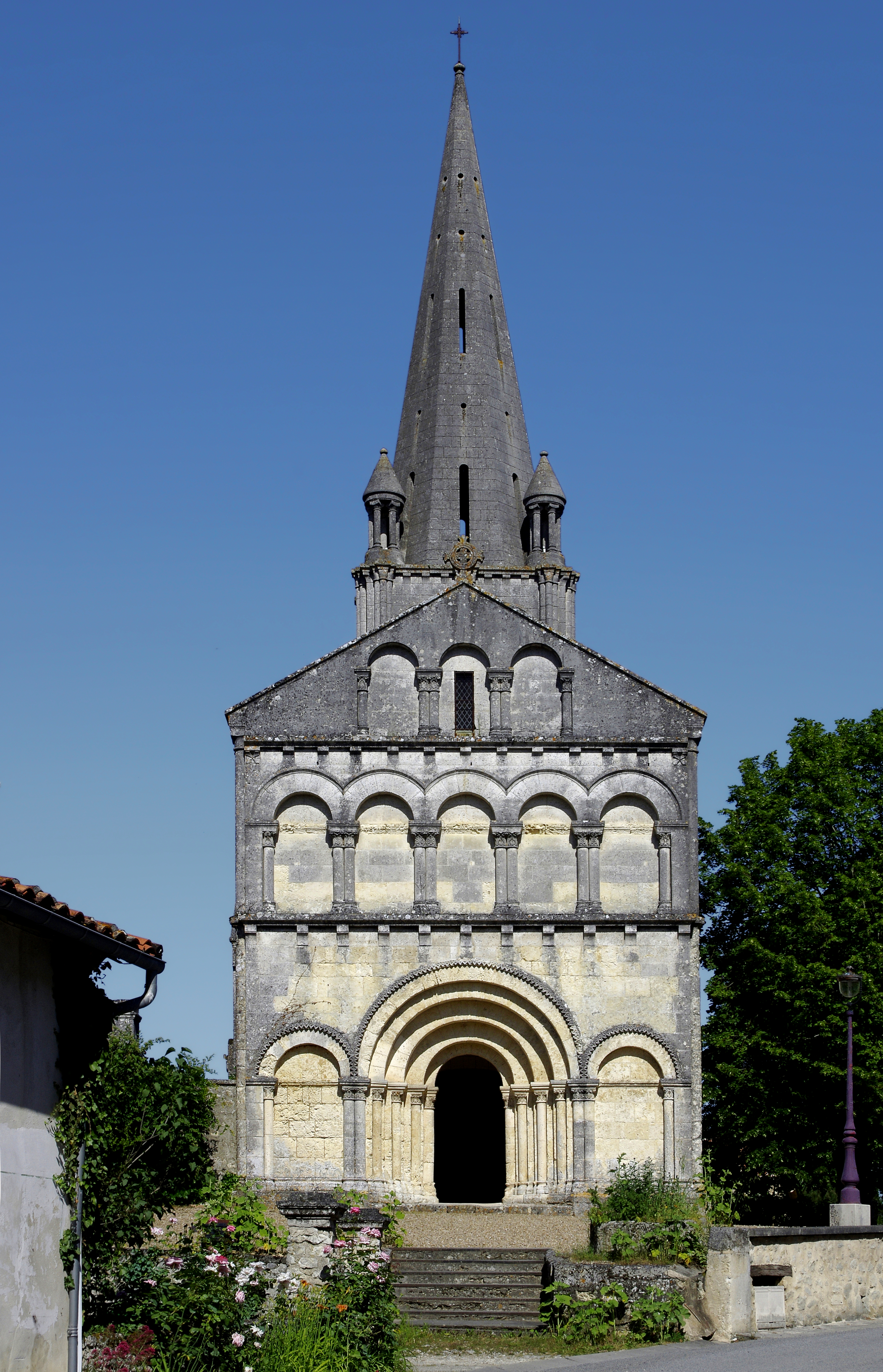 Church of Holy Trinity, (12th century, restored 19th), Charente, France. .